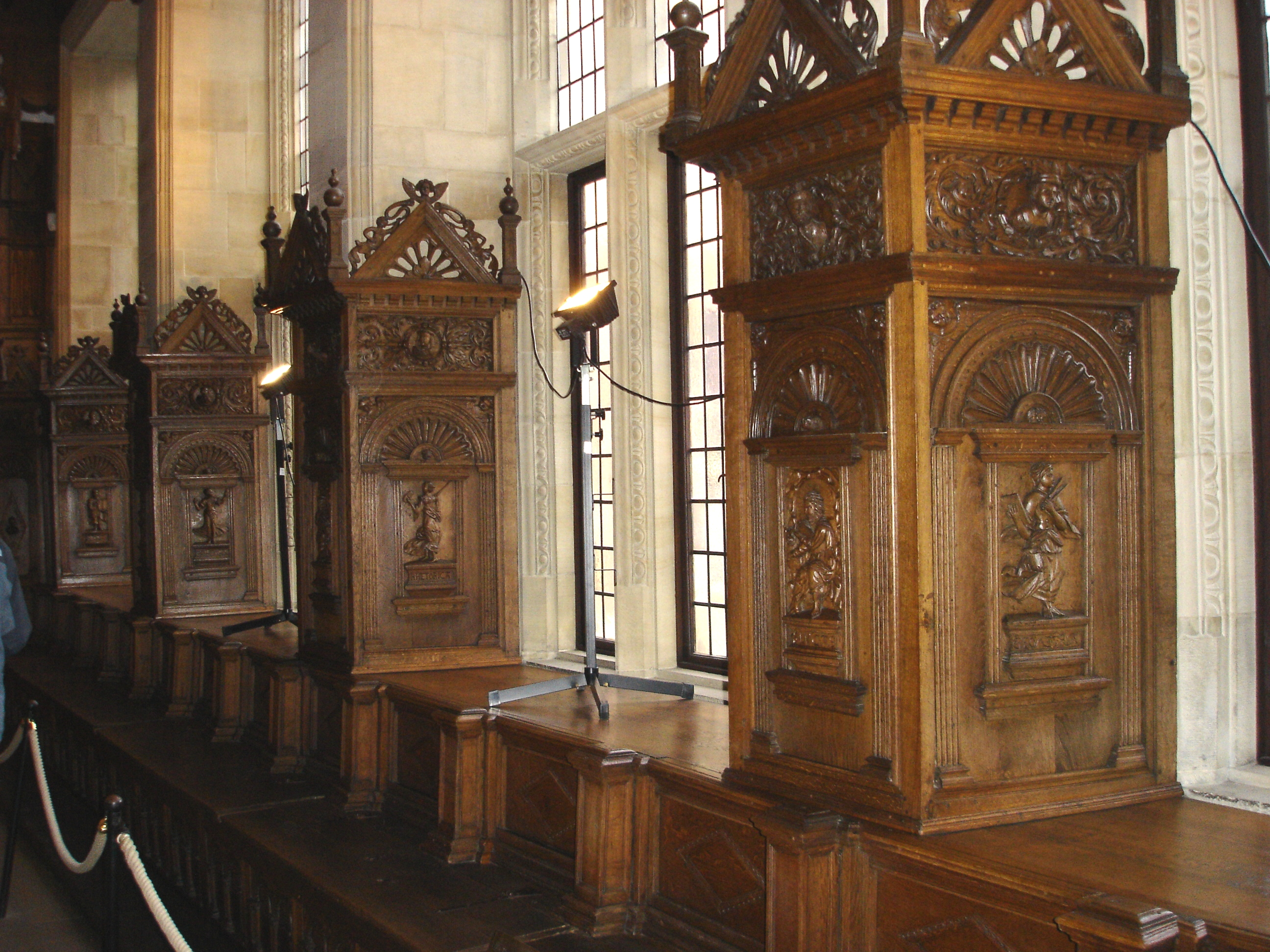 East wall of the "Friedenssaal" in the historical city hall in Münster, Westphalia, Germany